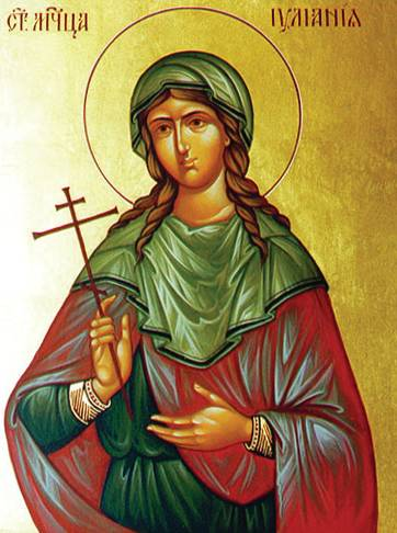 St. Juliana_of_Nicomedia (ortodox icon)